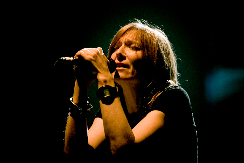 Beth Gibbons ; concert of Portishead